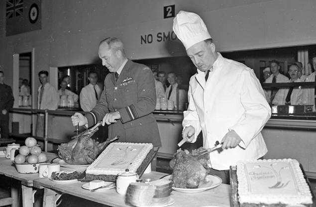 Group Captain H.O. McDonald (right), the commanding officer of the Royal Canadian Air Force’s No. 1 Manning Depot in Toronto, Ontario, discarded his air force uniform for a chef’s tall white hat and jacket when airmen at the station were served an early Christmas dinner. The Yuletide meal, complete with all the trimmings, was served by the officers and non-commissioned officers of the Manning Depot. Air Vice-Marshal G.O. Johnson (left), the air officer commanding No. 1 Training Command, RCAF, joined Group Captain McDonald in serving two of the hundreds of turkeys that disappeared during the meal held on December 22, 1942. Photo: Department of National Defence Archives